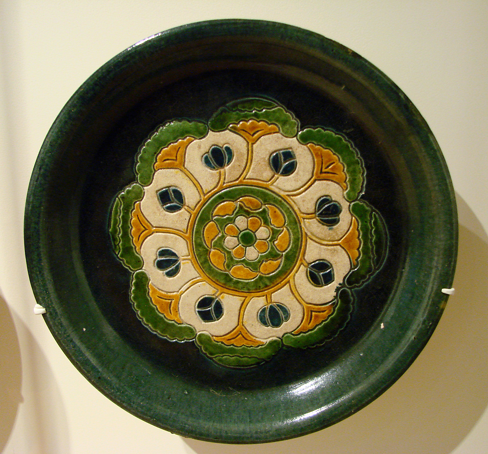 Plate offering, North China, 8th century, glazed terracotta "three colors" on engobe, incised decoration. Musée Guimet, Paris. MA 4021